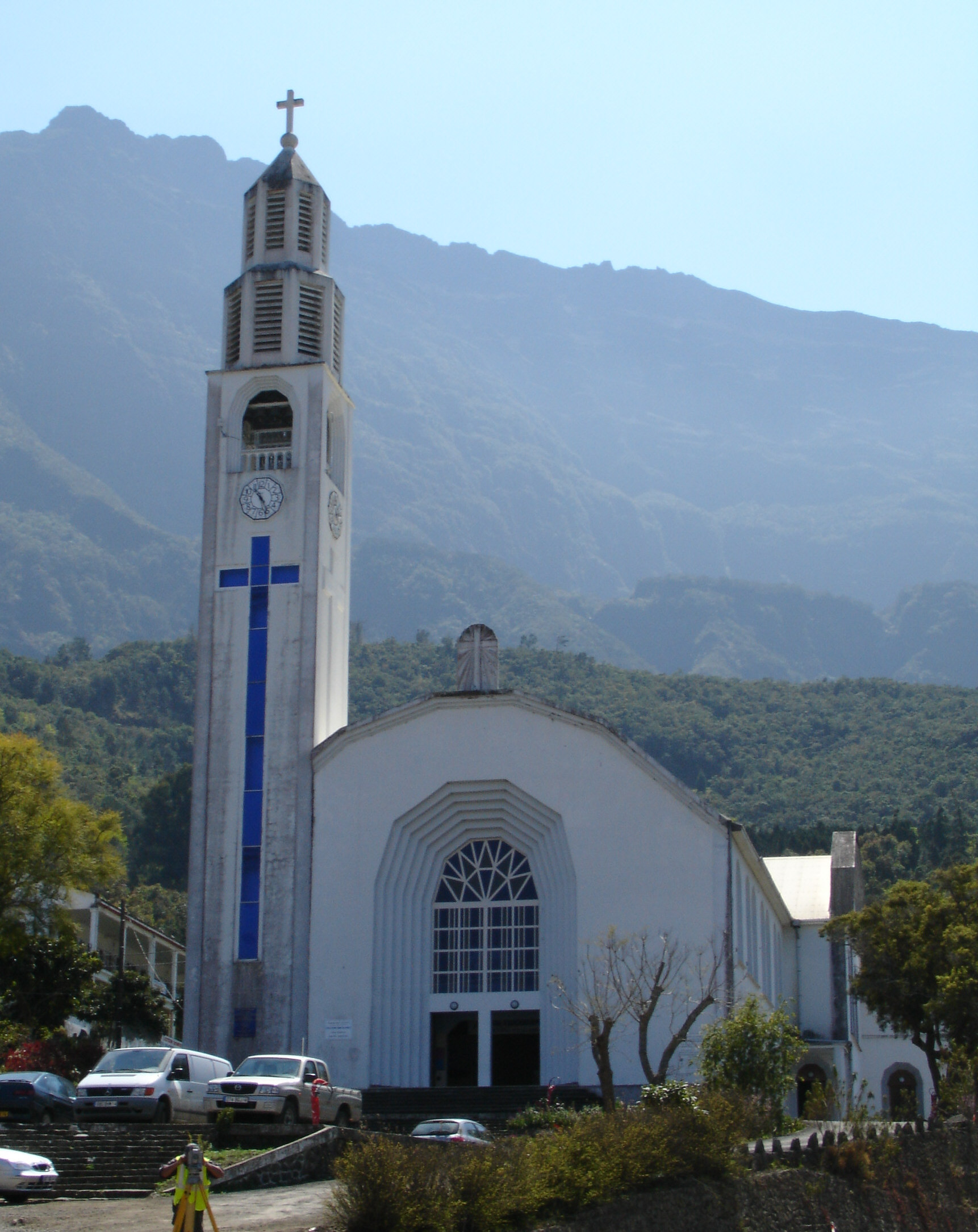 moderner Kirchenbau in Cilaos